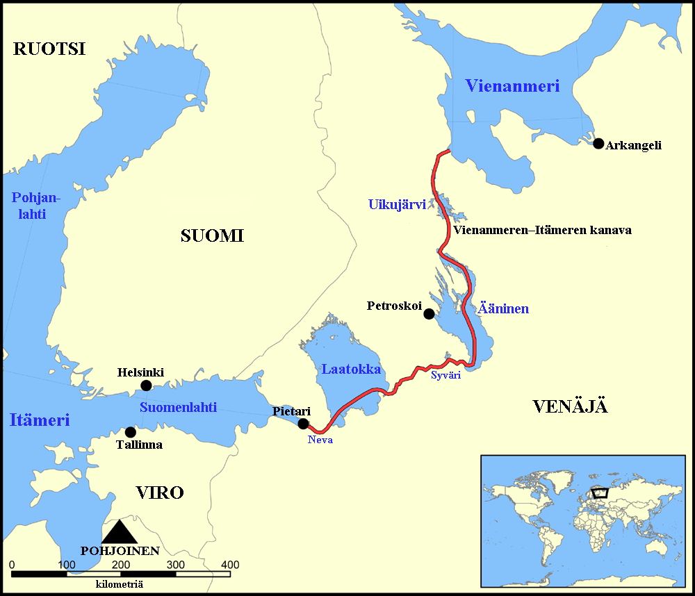 Map of White Sea Canal with Finnish titles